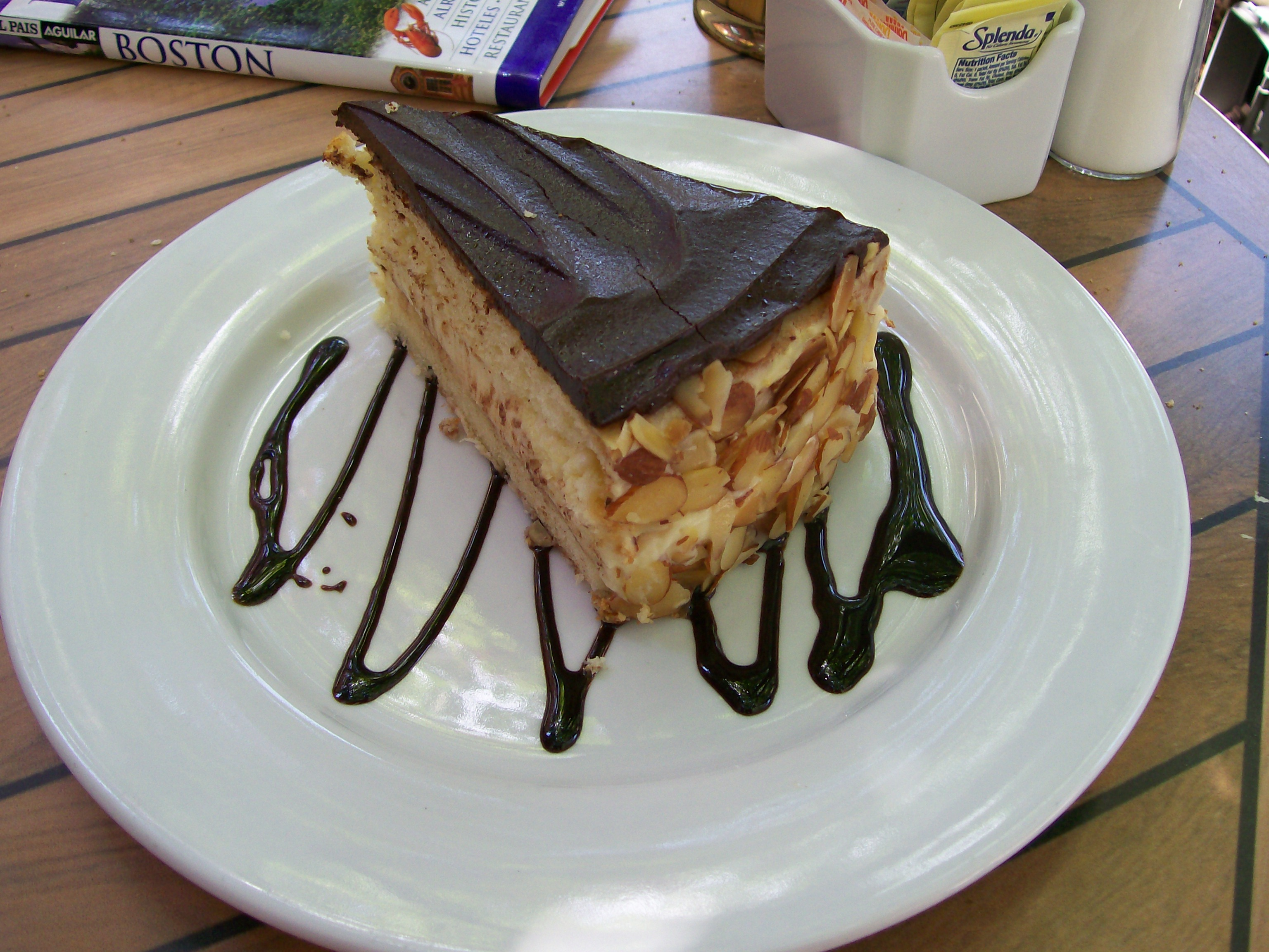 I sat at one of the tables outside Charley's Eating & Drinking Saloon on Newbury Street and enjoyed a gorgeous lunch. Guess what I asked for dessert? Yes, the famous Boston cream pie.